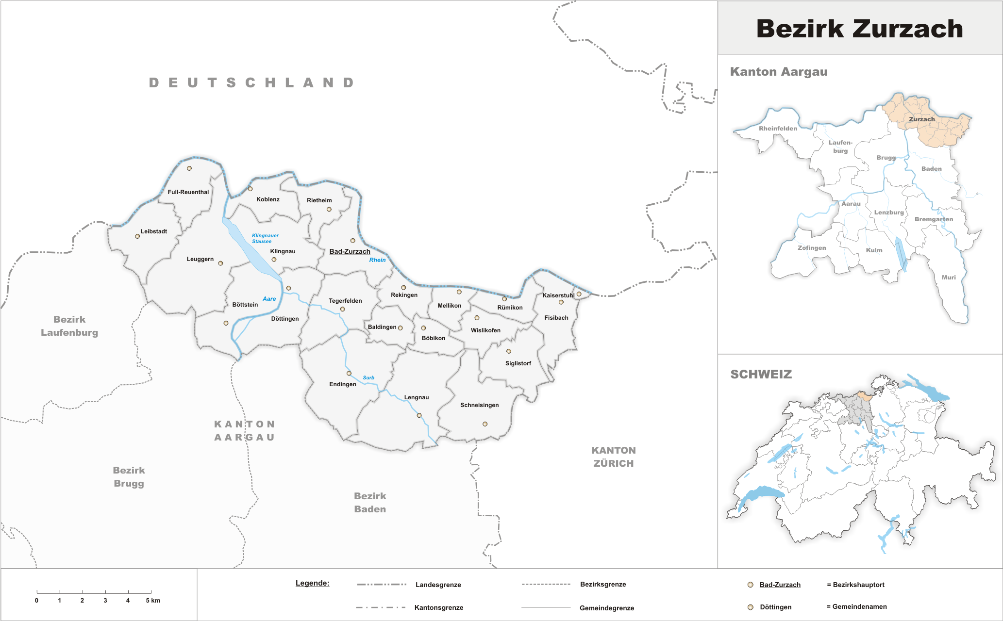 Municipality in the District of Zurzach